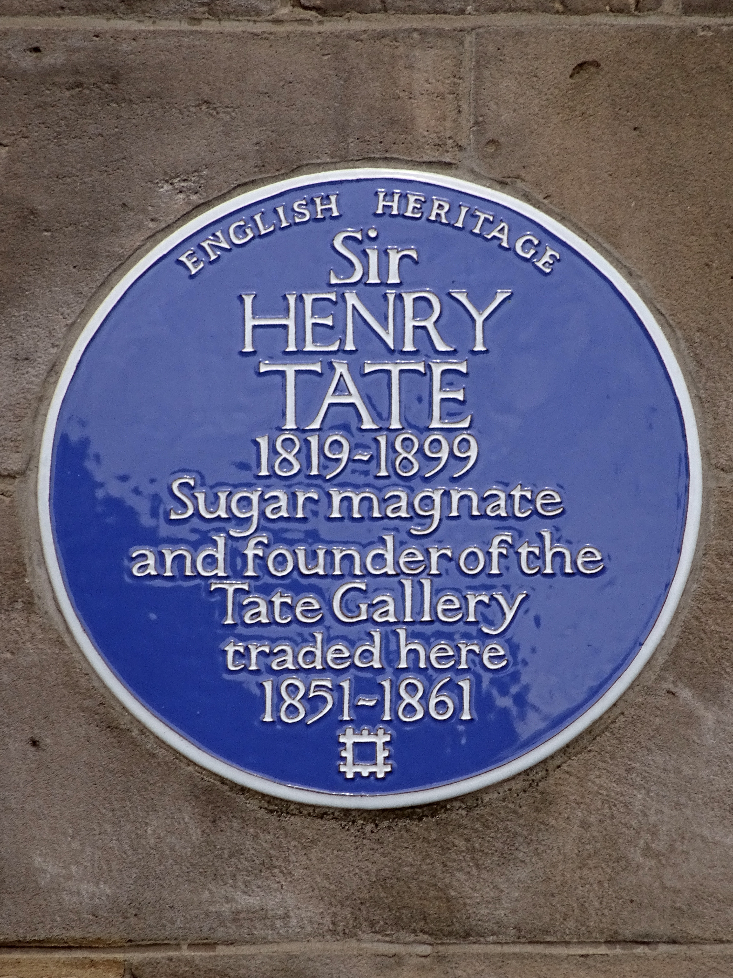 Blue plaque erected by English Heritage at 42 Hamilton Street, Birkenhead, Merseyside CH41 5AE on 3rd October 2001 under the pilot national scheme 1998-2007